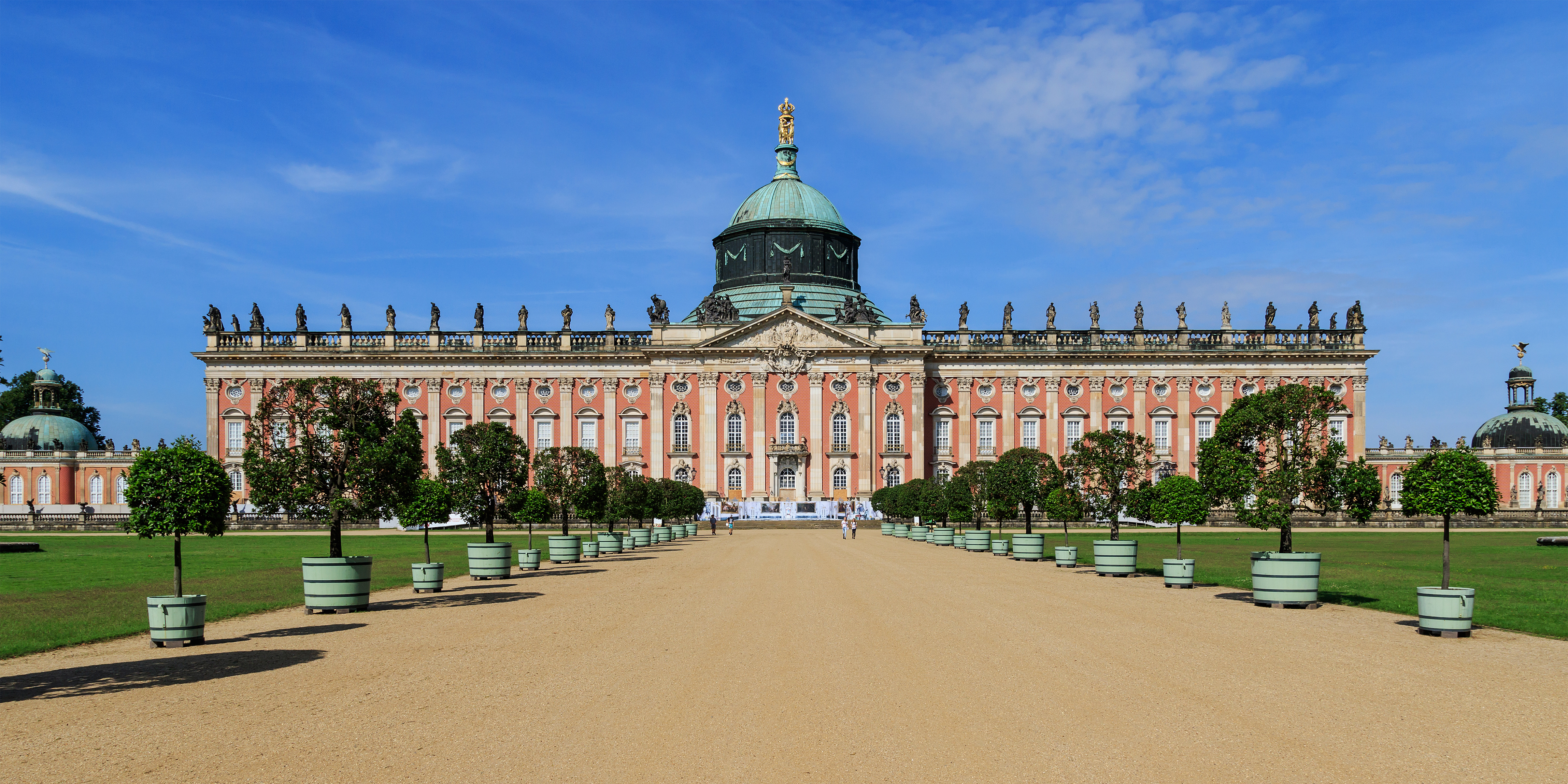 Ensemble of Sanssouci Neues Palais in Potsdam (Germany)